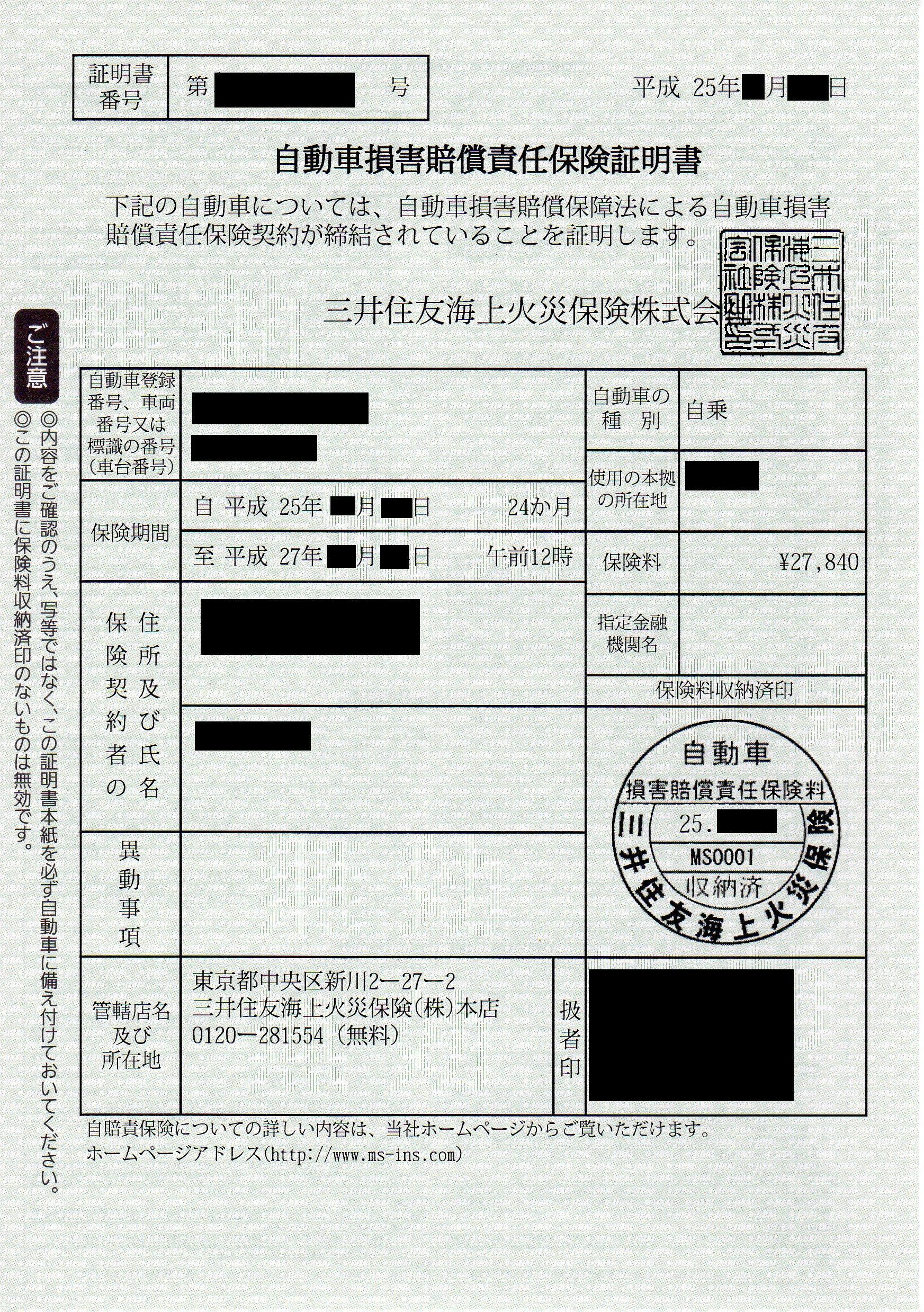 A policy of compulsory automobile liability insurance, issued by the Mitsui Sumitomo Insurance Co., Ltd.